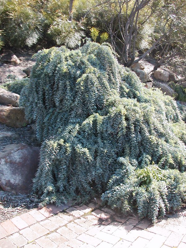 Prostrate Cootamundra wattle (Acacia baileyana) cascading, Grevillea Park, Bulli